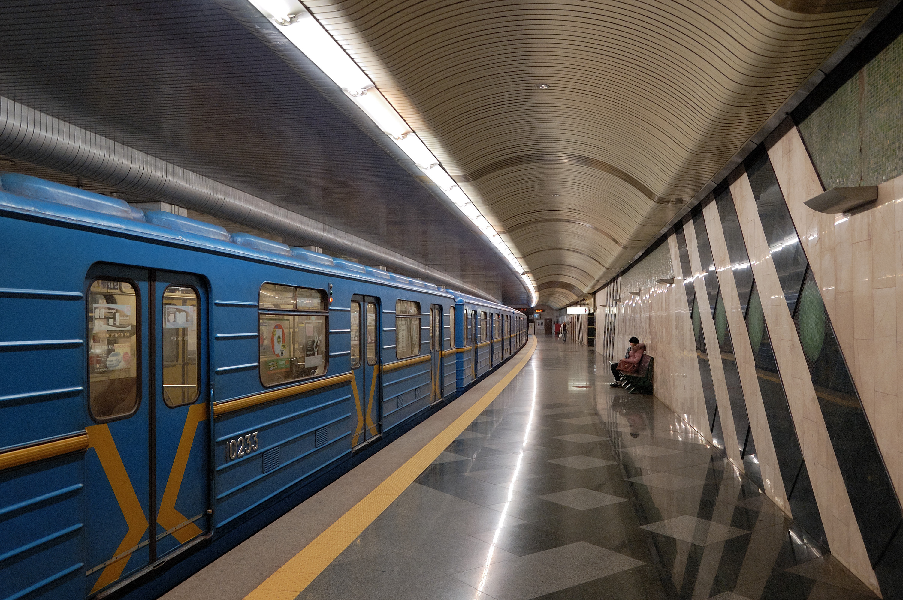 Vyrlytsia Metro Station